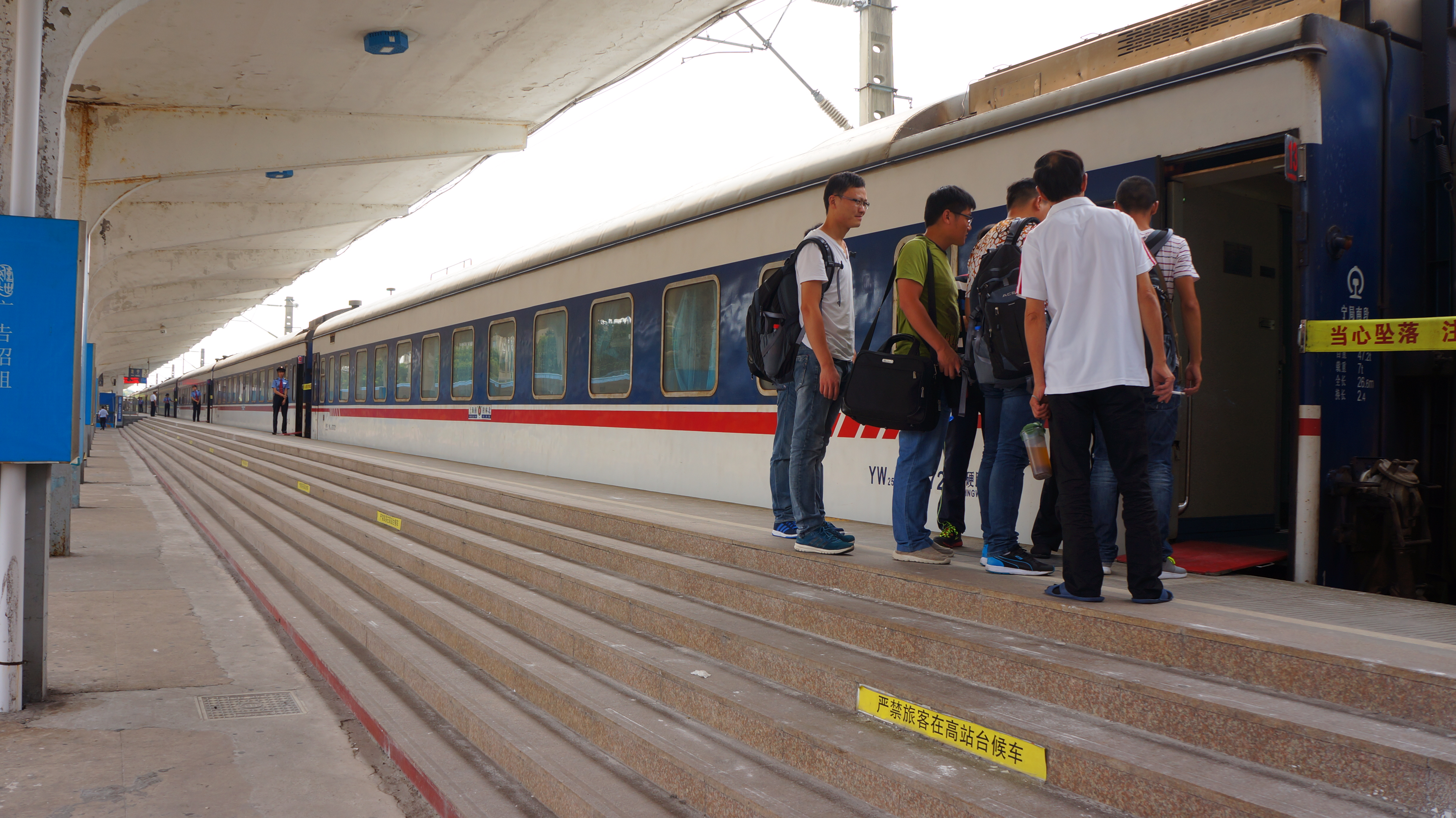 Heightened Platform 3 of Haining Railway Station,with T78